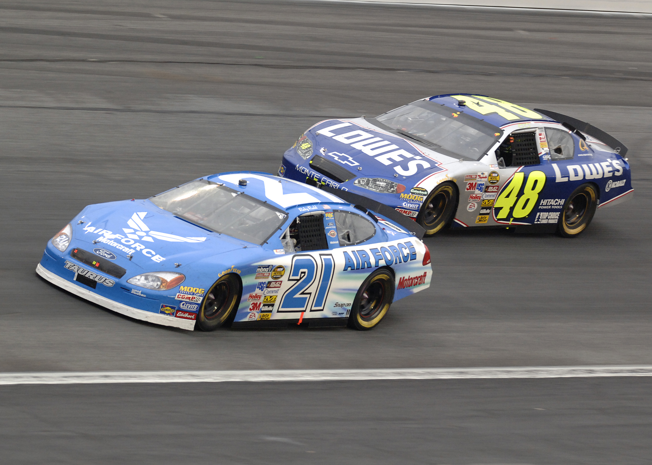 Ricky Rudd, driving the Air Force Wood Brothers Racing #21 battles with Coca-Cola 600 Winner Jimmie Johnson. Ricky race ended early when he had a blowen engine.